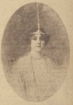 A miniature portrait of opera singer Dame Nellie Melba